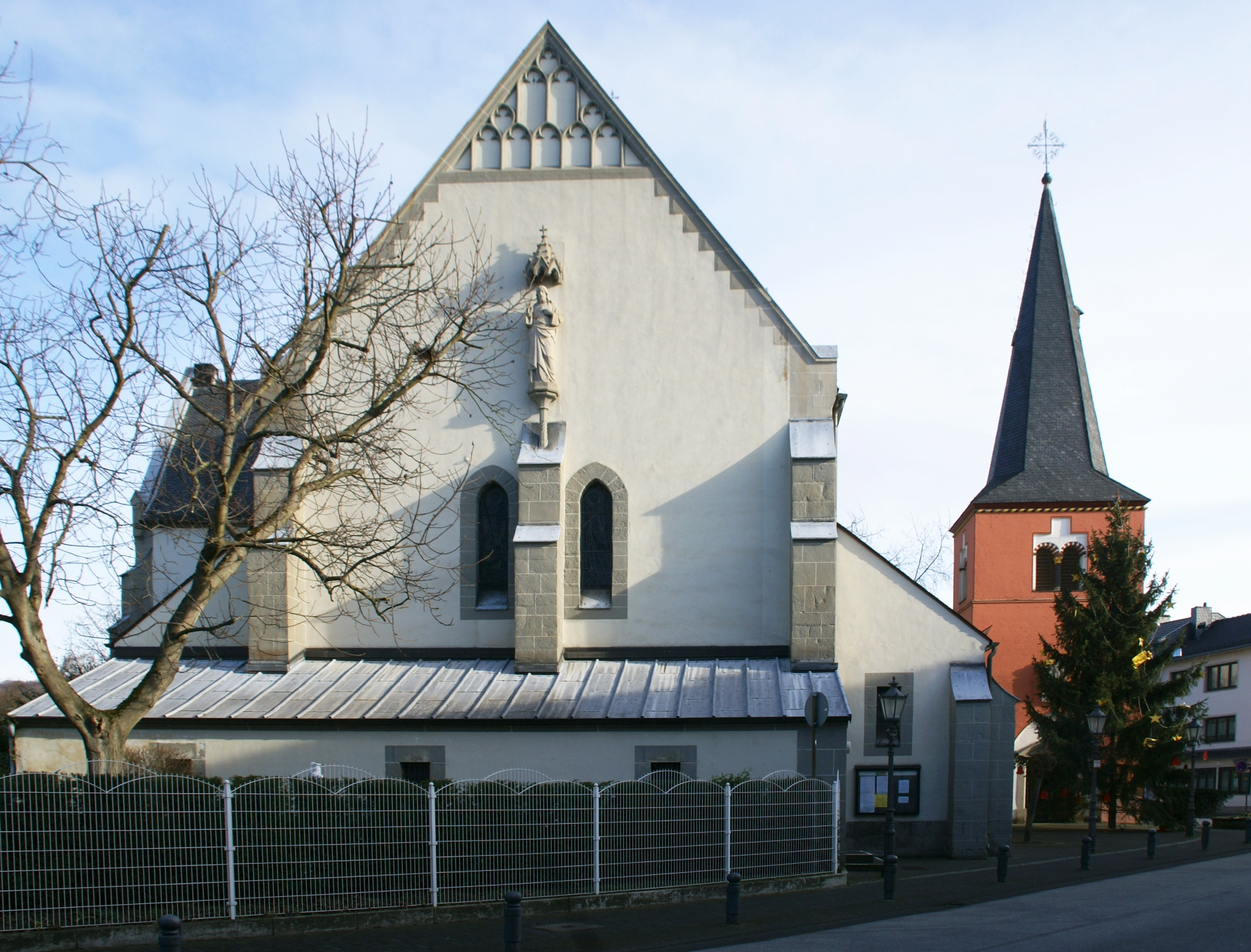 Catholic parish church of St. Michael in Niederdollendorf: view of the front side of the nave and the church tower